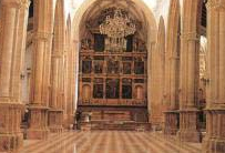 "Altar Mayor".Asuncion Cathedral in Bujalance, Cordoba. Spain